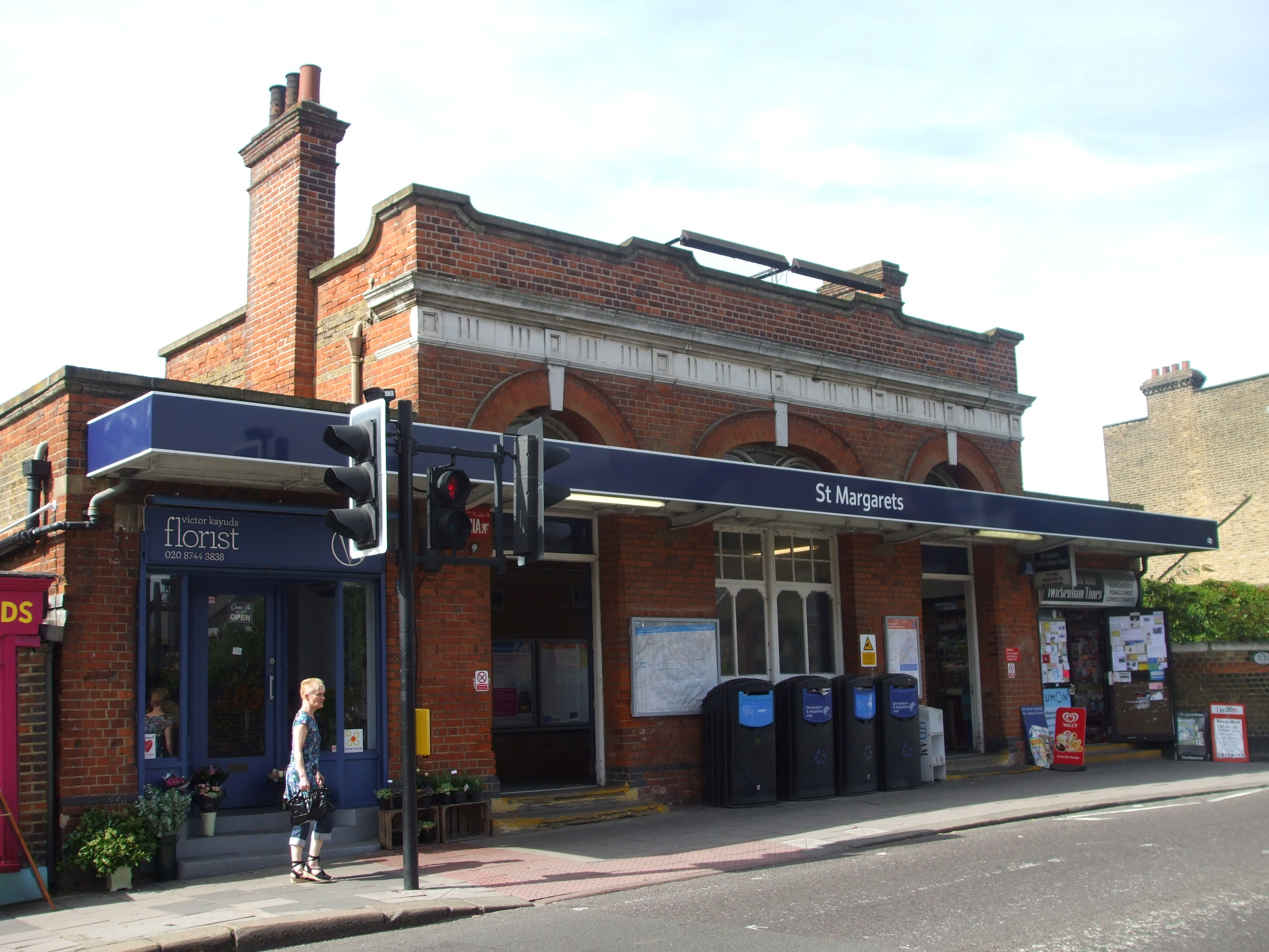 St Margarets station (Middlesex) station building, as seen in 2012.